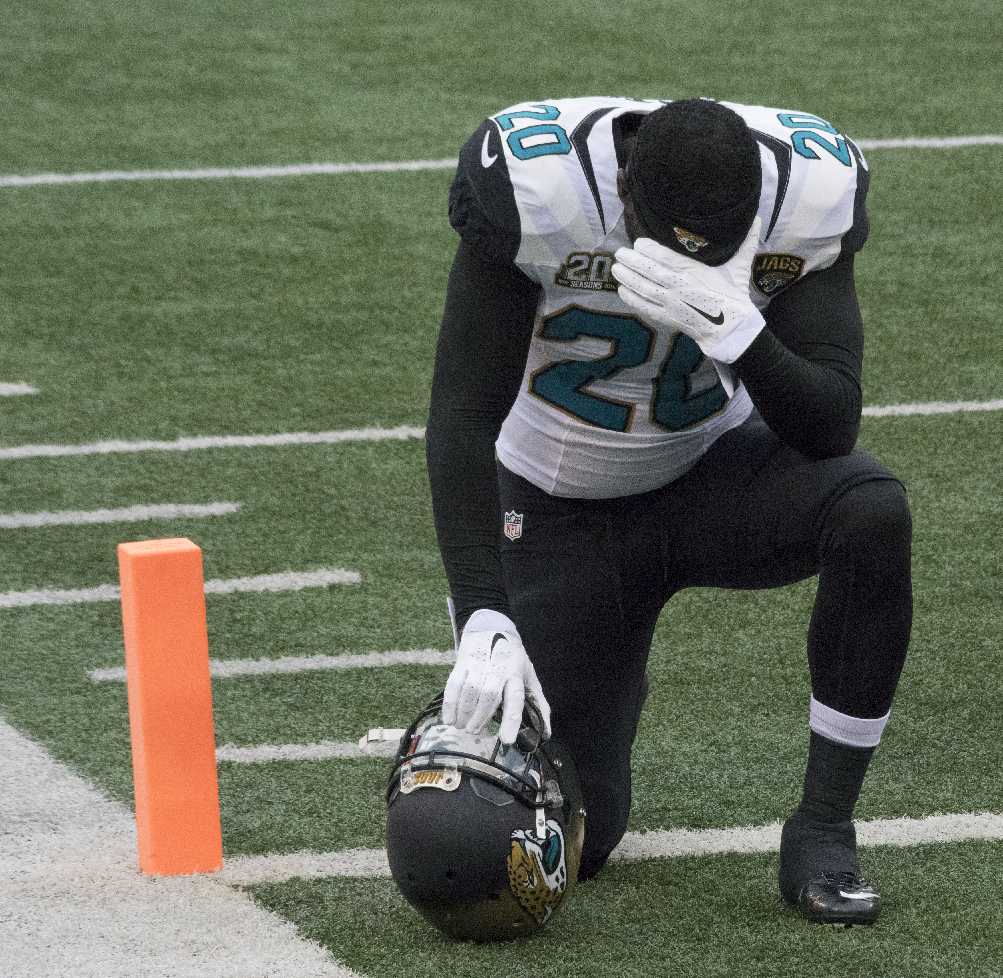 Jaguars at Ravens 12/14/14